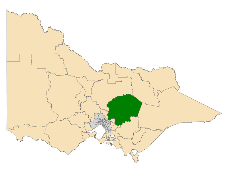 Location of the Electoral District of Eildon (dark green) in the state of Victoria, Australia. These boundaries were used for the Victorian state election on 29 November 2014.